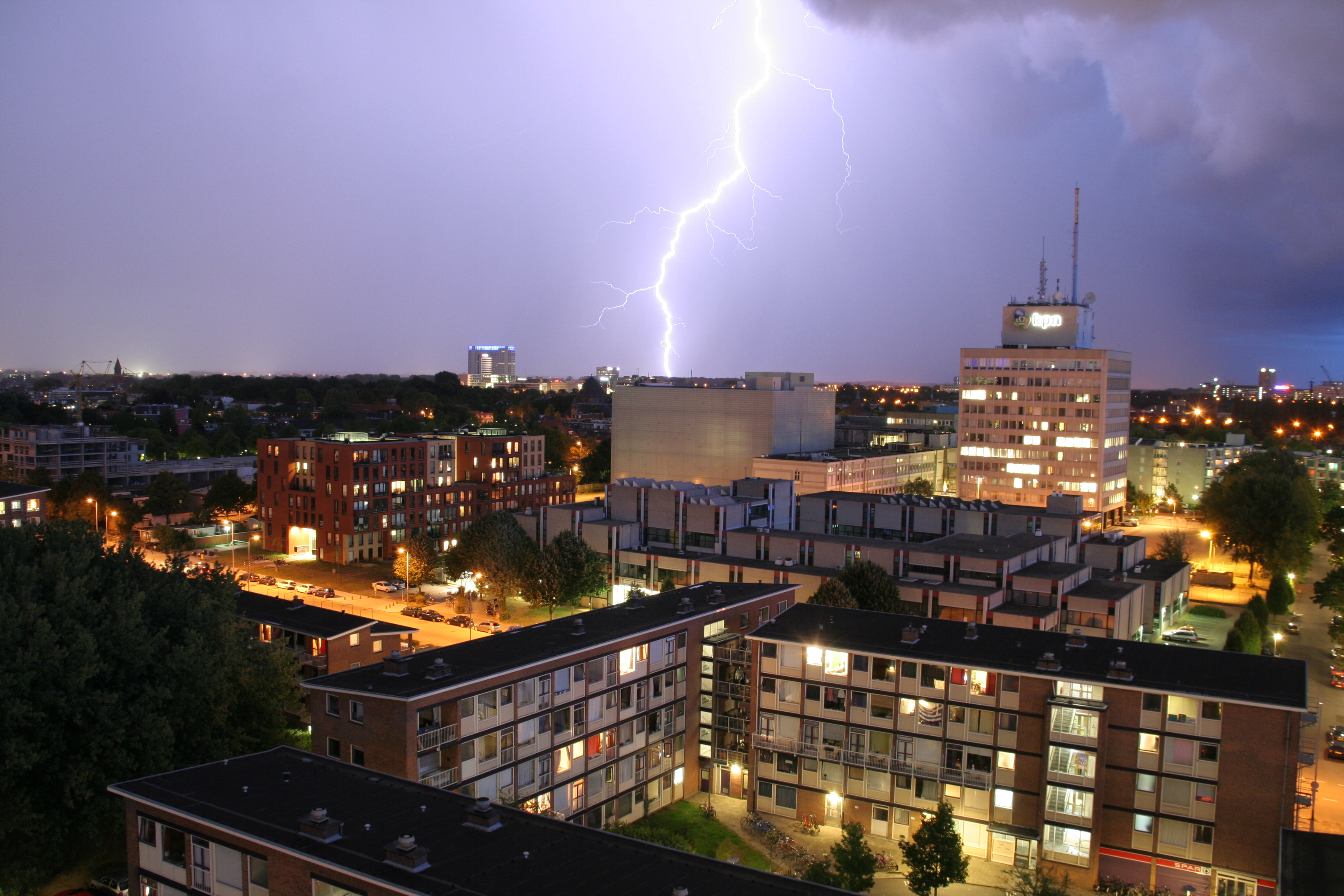 Utrecht East during some lightning.